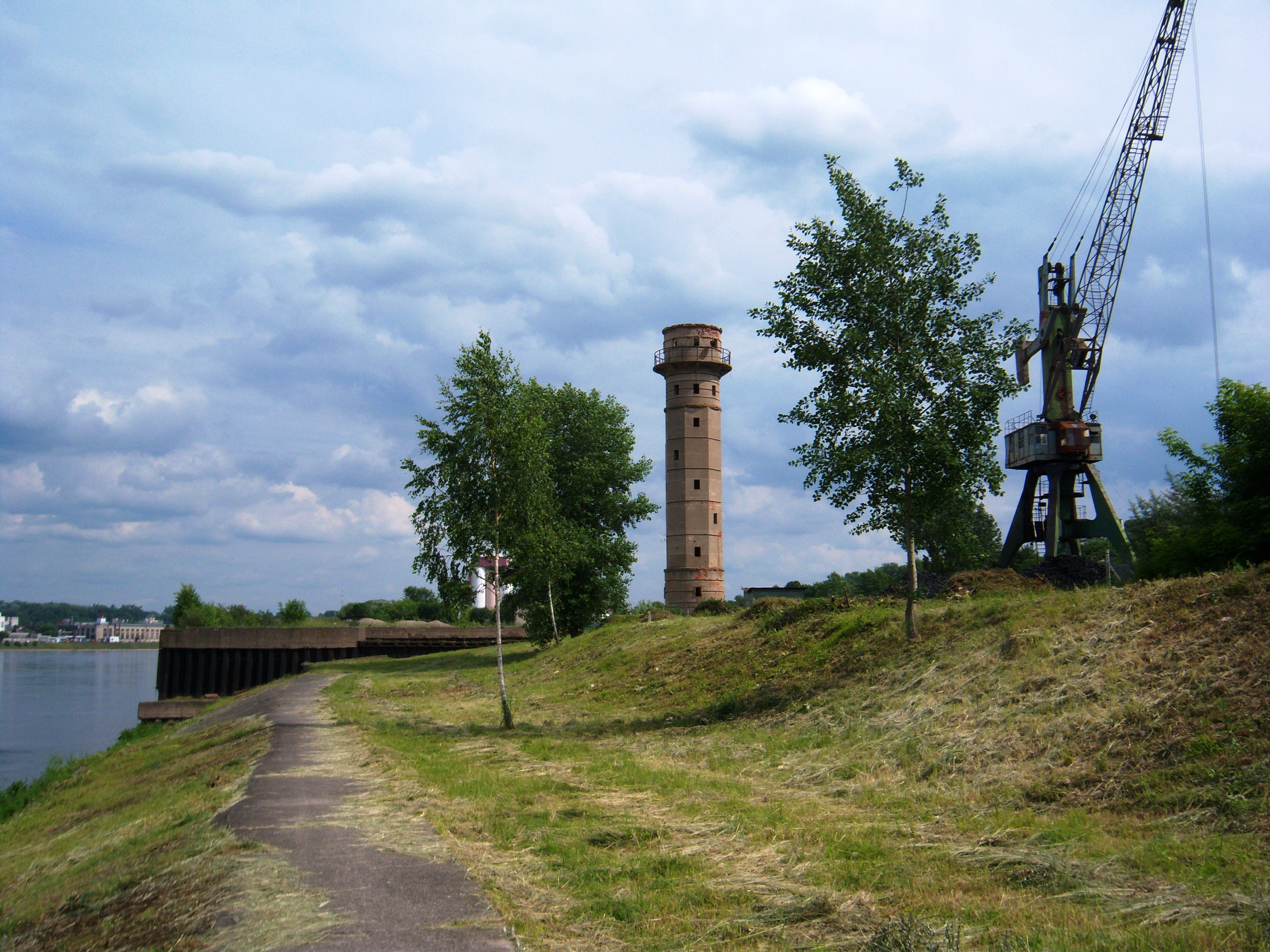 Neman River port, Kaunas, Lithuania